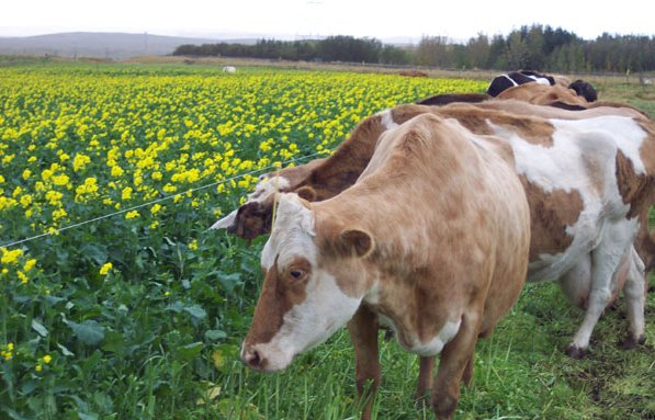 Icelandic cows eating rapeseed